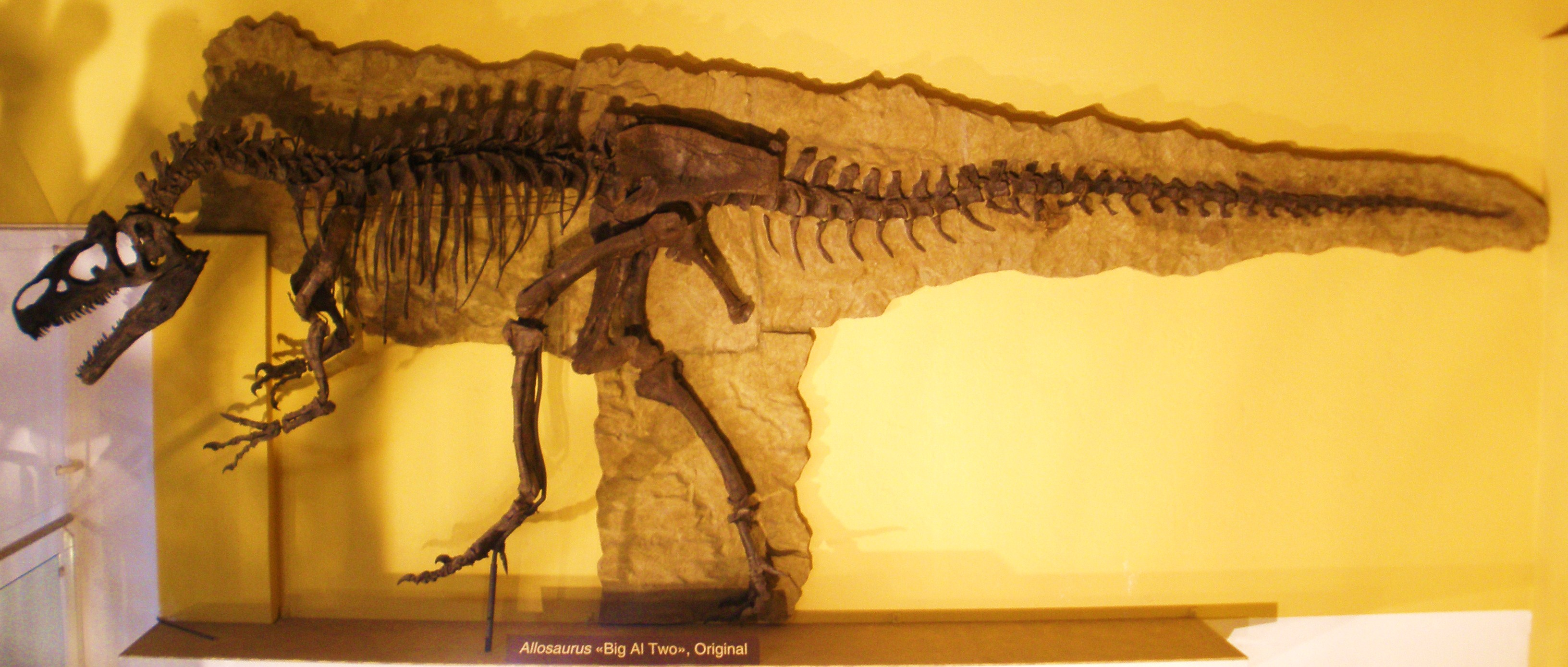 Original restored specimen of the Allosaurus nicknamed "Big Al Two", an allosaurid theropod dinosaur